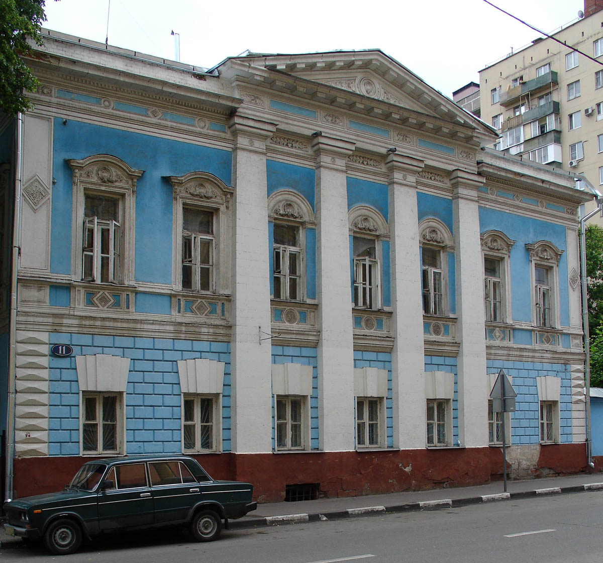 5th Monetchikovsky Lane, Moscow